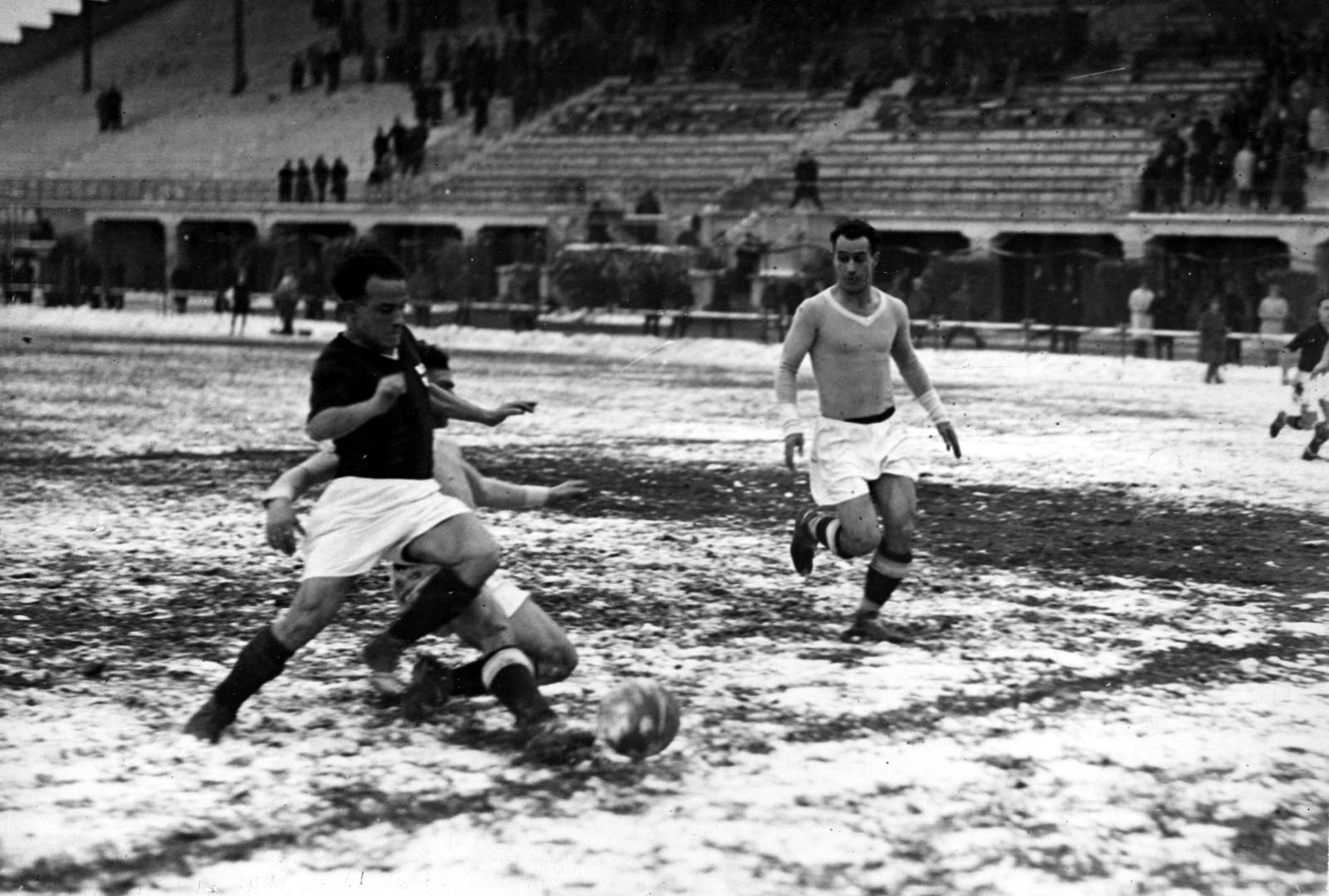 Milan (Italy), San Siro, January 25, 1933. Milan F.C. — S.S. Lazio 0-0, Matchday 14 of the Italian Championship 1932–33 Serie A: Milan's forward Mario Magnozzi in action versus Lazio's defensive line.